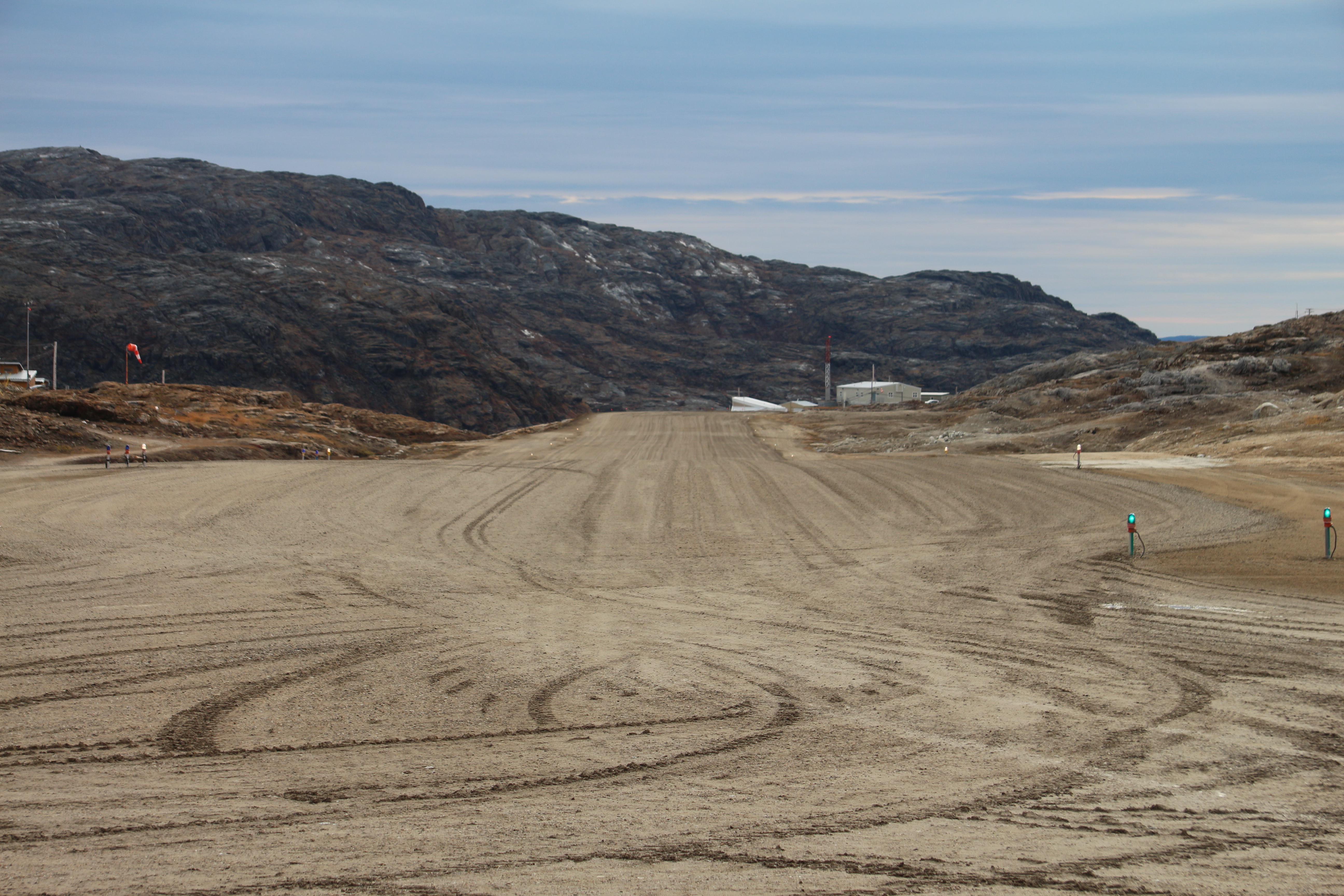 This is the preferred take-off direction.